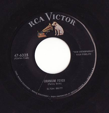 Uranium Fever by Elton Britt, RCA Victor 1955.